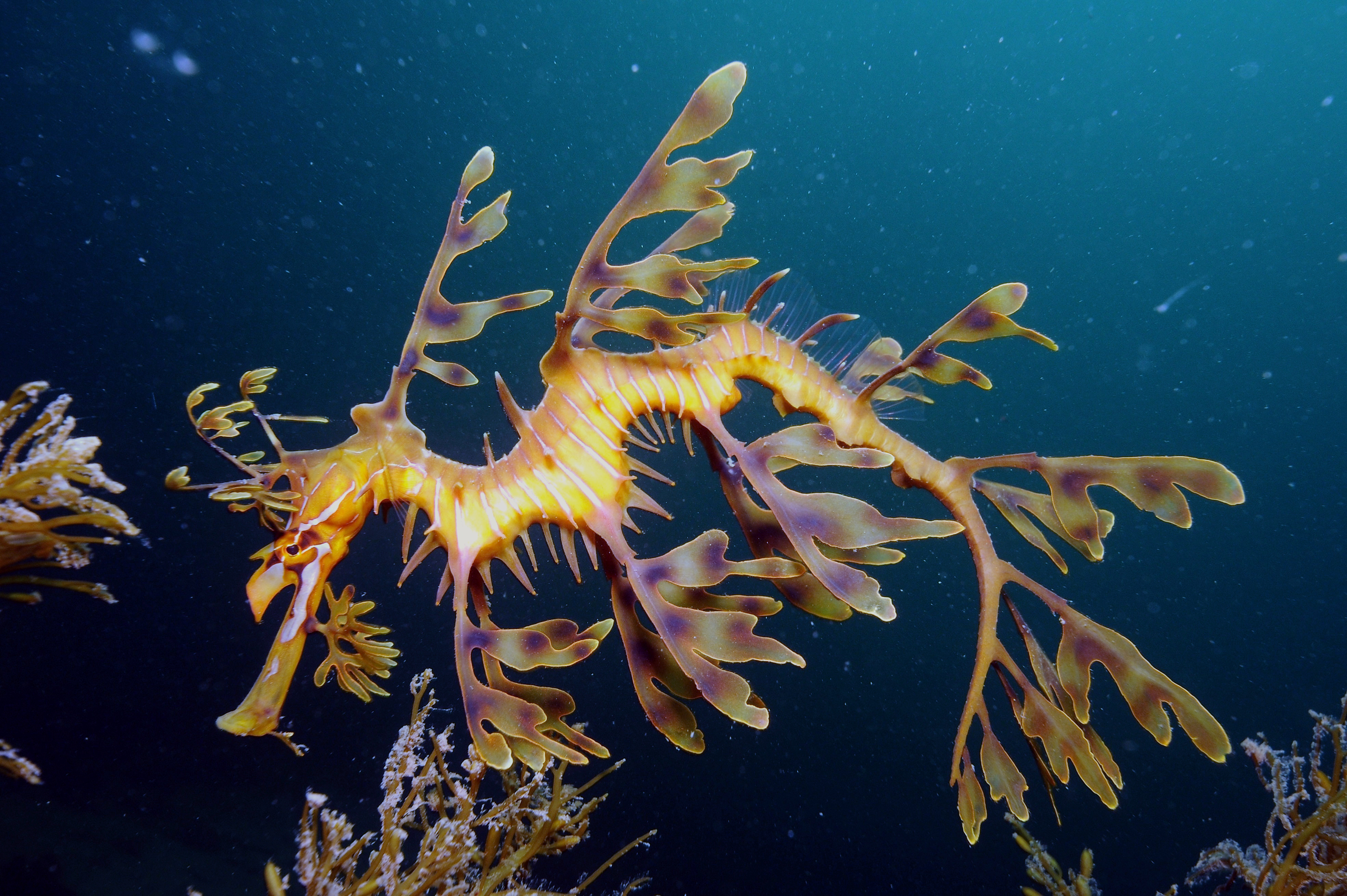 Leafy Seadragon on Kangaroo Island taken with Nikon D300 in Ikelite Housing with auxiliary flash and Nikon 10-24mm lens